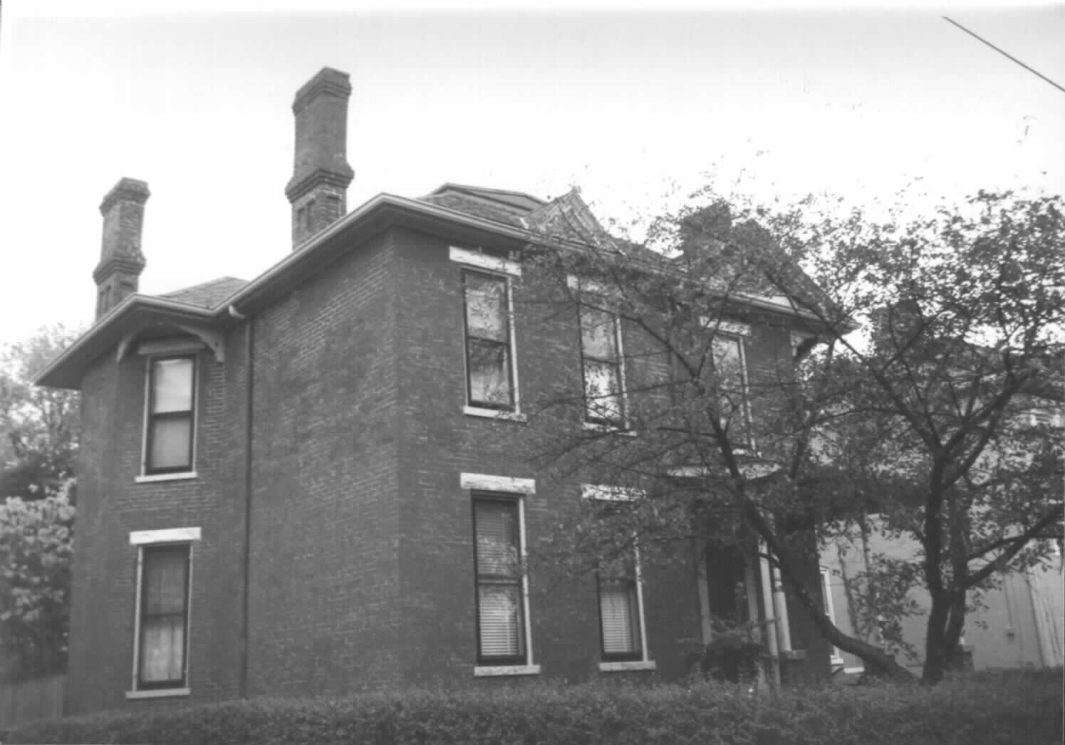 Black and white photograph of 330 Madison Place, Lexington, Kentucky. Camera angle is looking generally south.